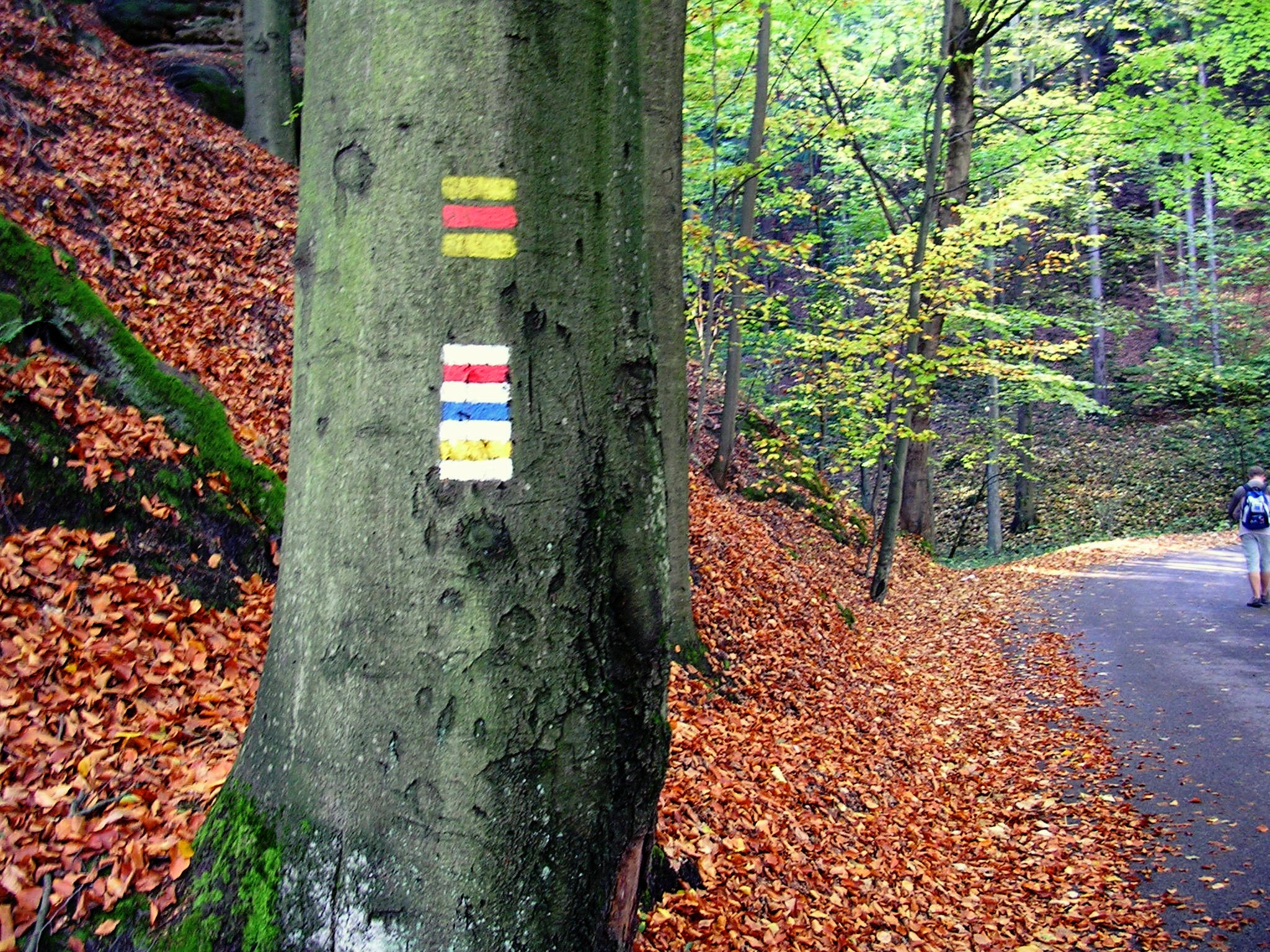 Cycling route sign and footpath route signs in the Czech Republic.